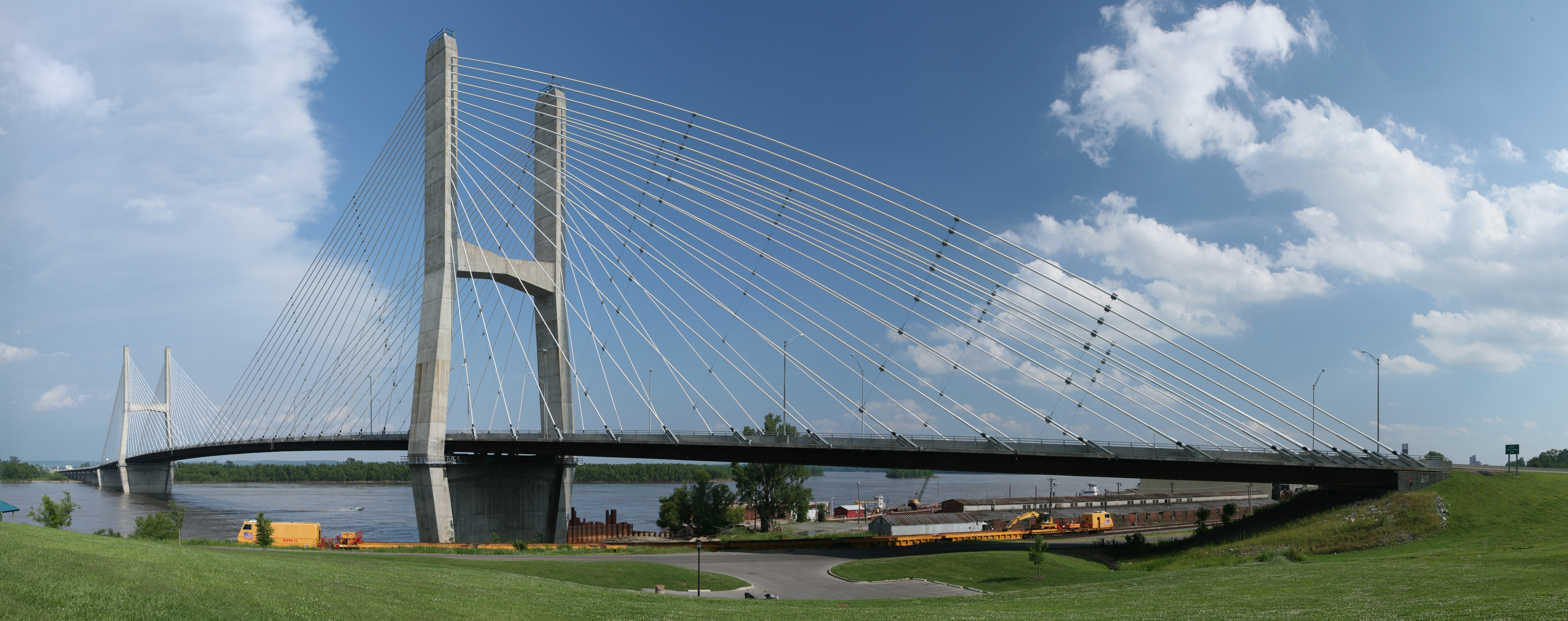 Bill Emerson Bridge crossing the Mississippi River at Cape Girardeau This image was created with Hugin.